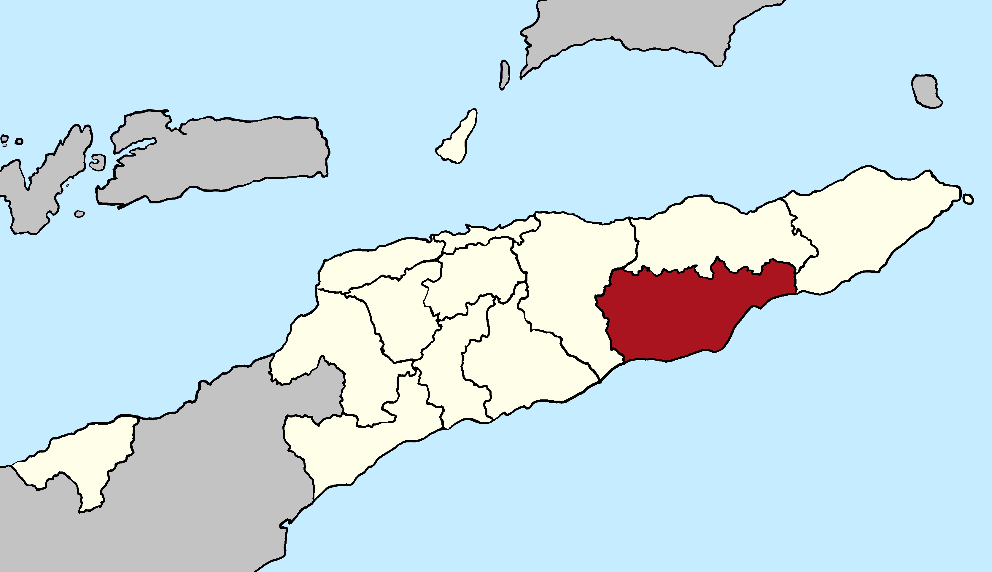 Locator map of Viqueque municipality since 2015, East Timor